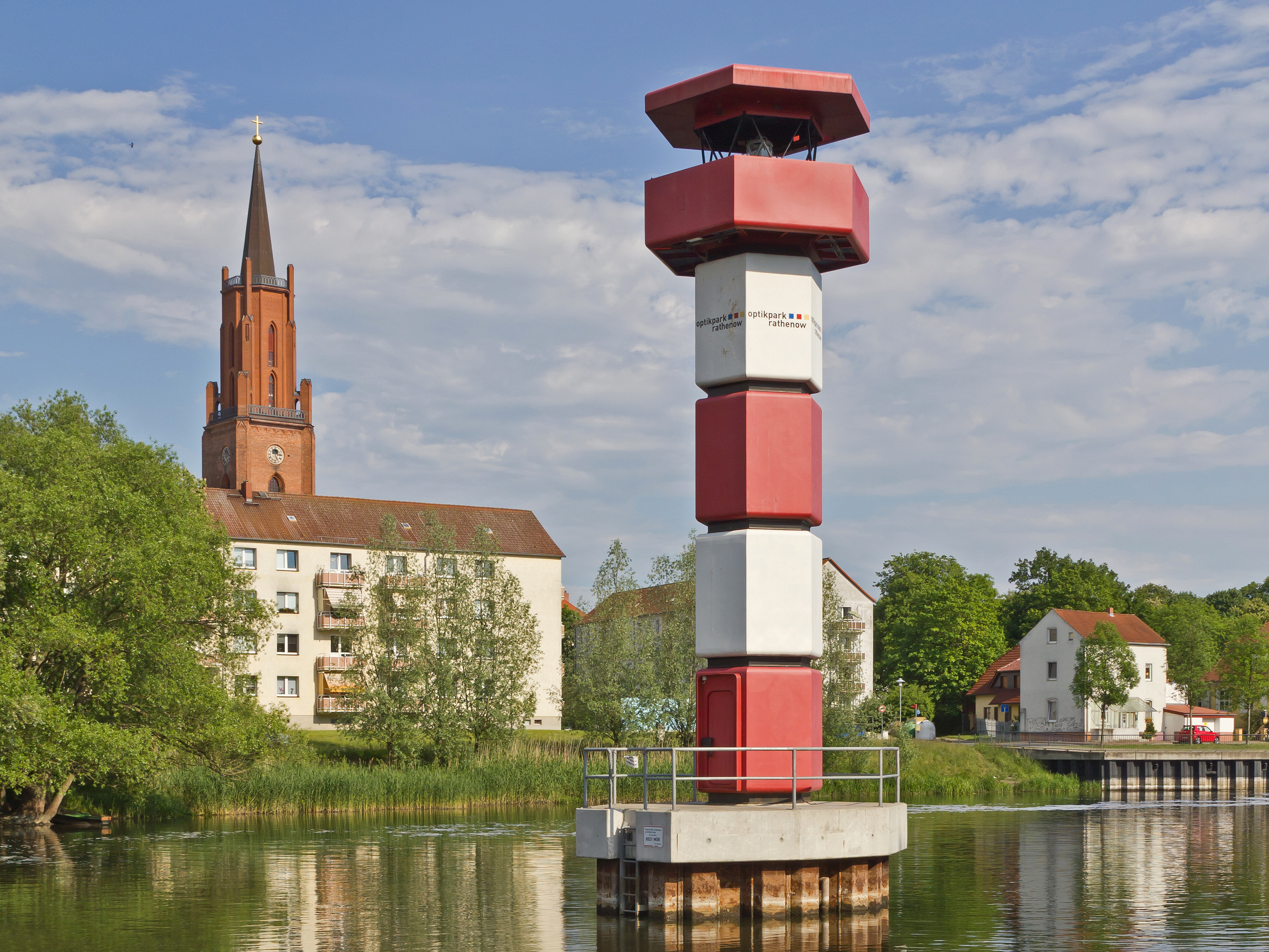 Rathenow, Brandenburg, Germany: Optics Park; the lighthouse